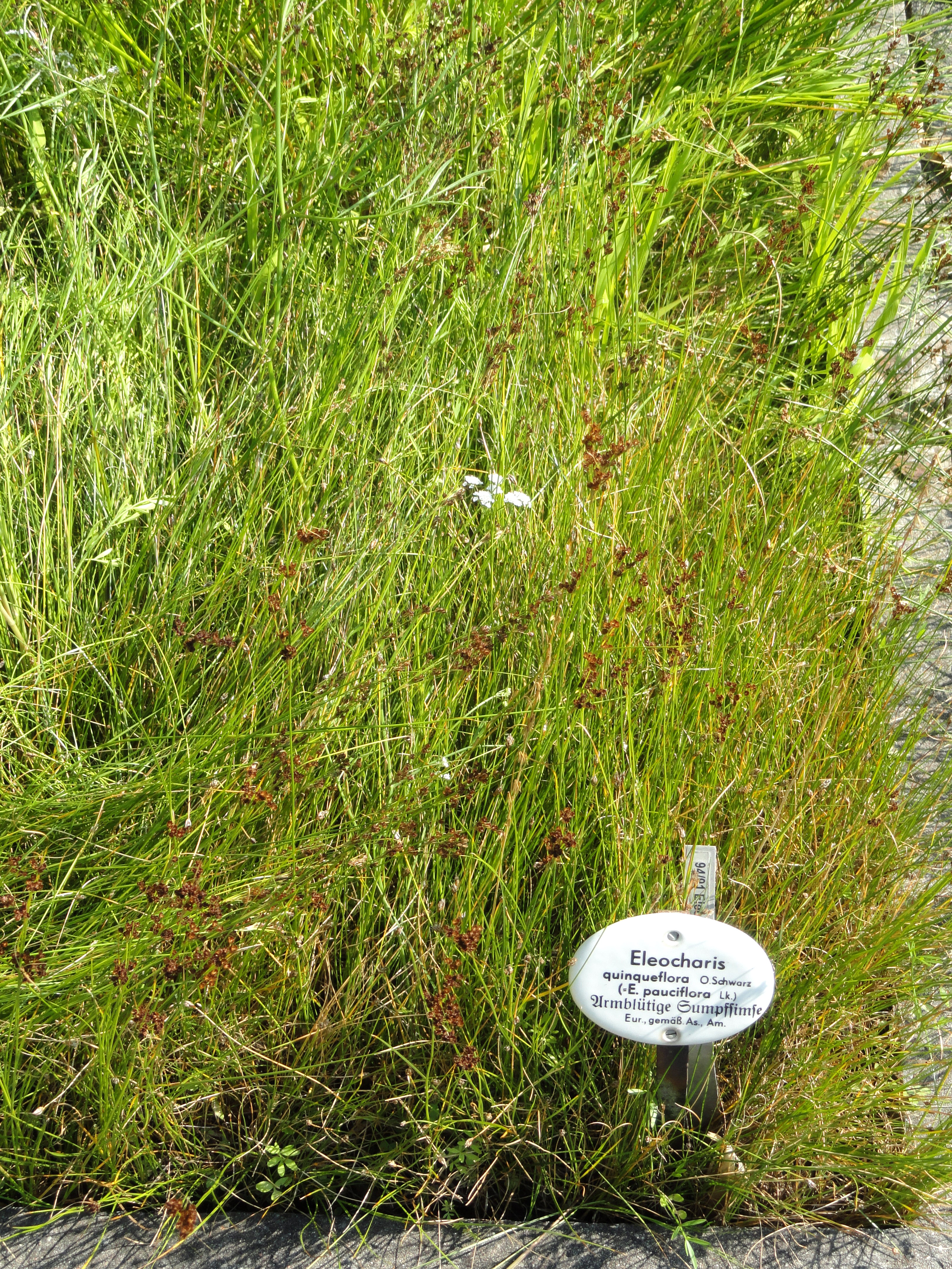 Botanical specimen in the Botanischer Garten, Frankfurt am Main, Germany.